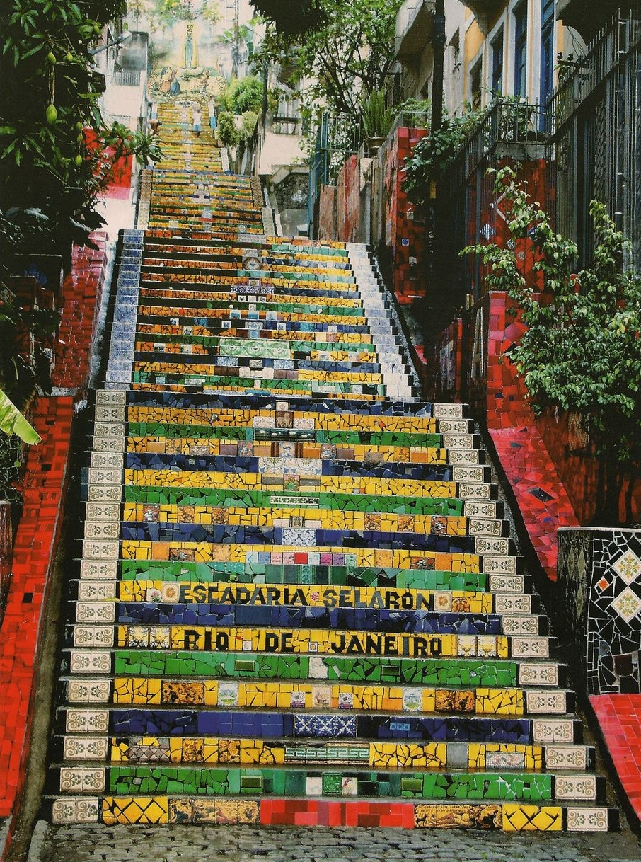 picture of the Selaron Stair at the Lapa neighbrahood in Rio de Janeiro Brazil